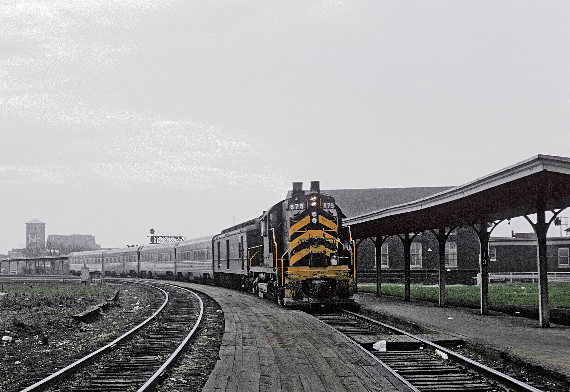 A Roger Puta Photograph